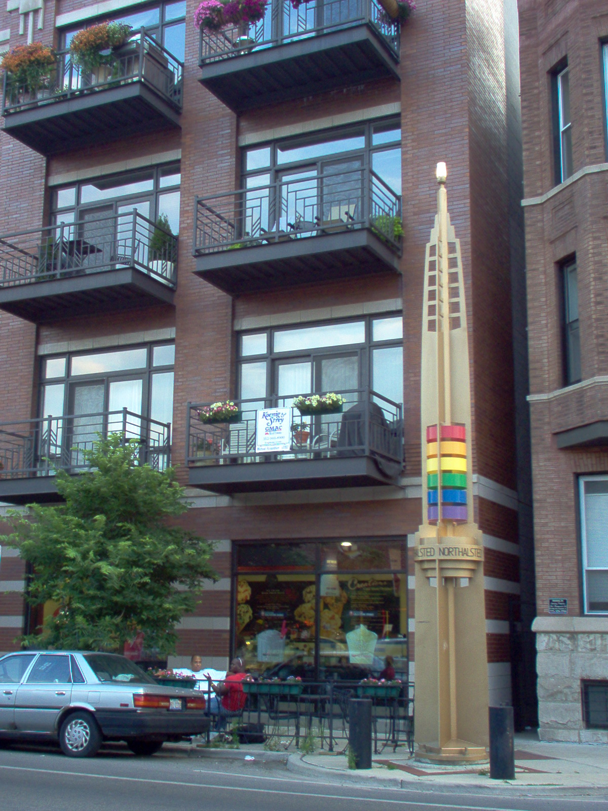 Photo by Gerald Farinas of the landmark rainbow pylons along North Halsted Avenue in Chicago Boystown gay village in Lake View East